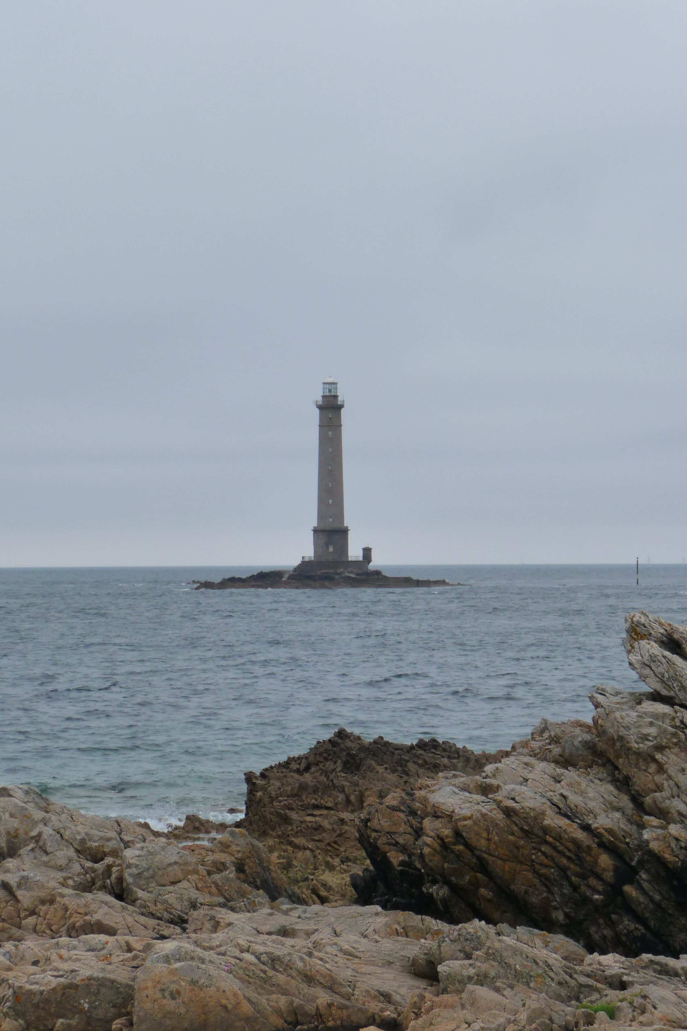 Lighthouse at Cap La Hague